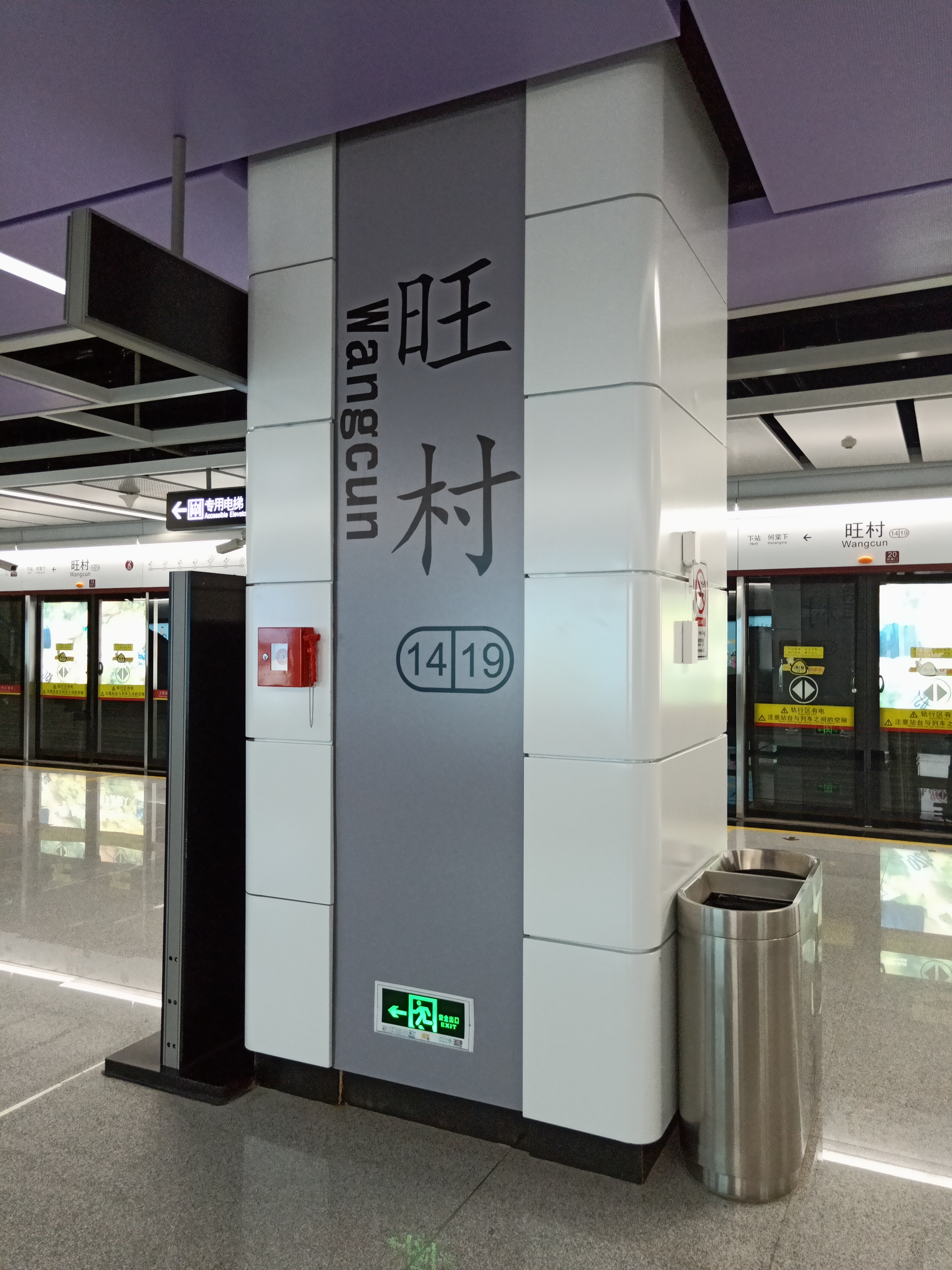 WORD on PILLAR for Wangcun Station in Guangzhou Metro